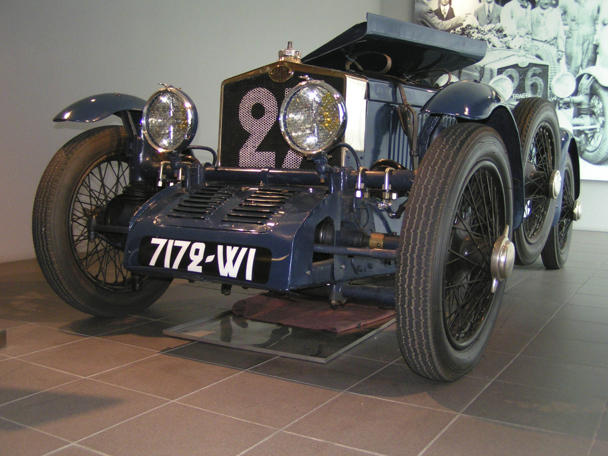 1929 Tracta A This car placed first in its class and amazingly with only 995cc seventh overall in the 1929 Le Mans race. This car is original with the exception of a new coat of paint.1929 Tracta A